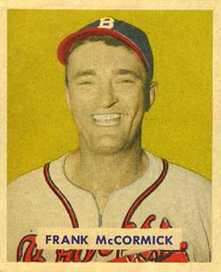 Former Major League Baseball player Frank McCormick in 1949.